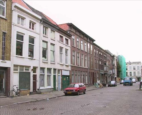 Street: Van Limburg Stirumstraat City: The Hague Country: The Netherlands. The Van Limburg Stirumstraat before renovation